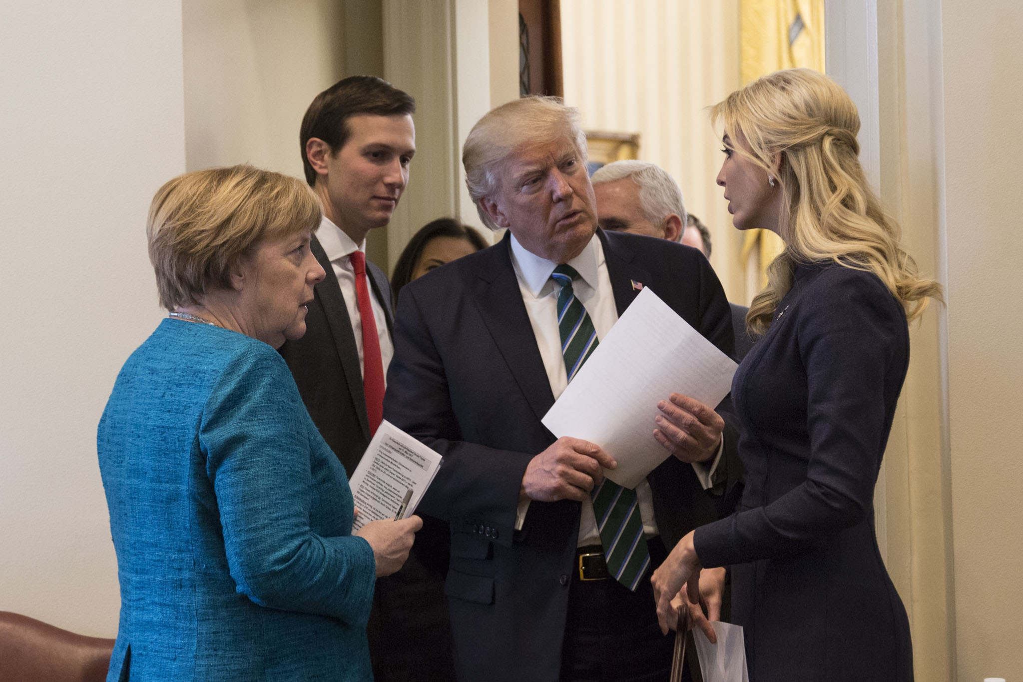 President Donald Trump talks with German Chancellor Angela Merkel, Friday, March 17, 2017, in the outer Oval Office, joined by Senior White House Advisor Jared Kushner and Ivanka Trump, at the White House in Washington, D.C. (Official White House Photo by Shealah Craighead)